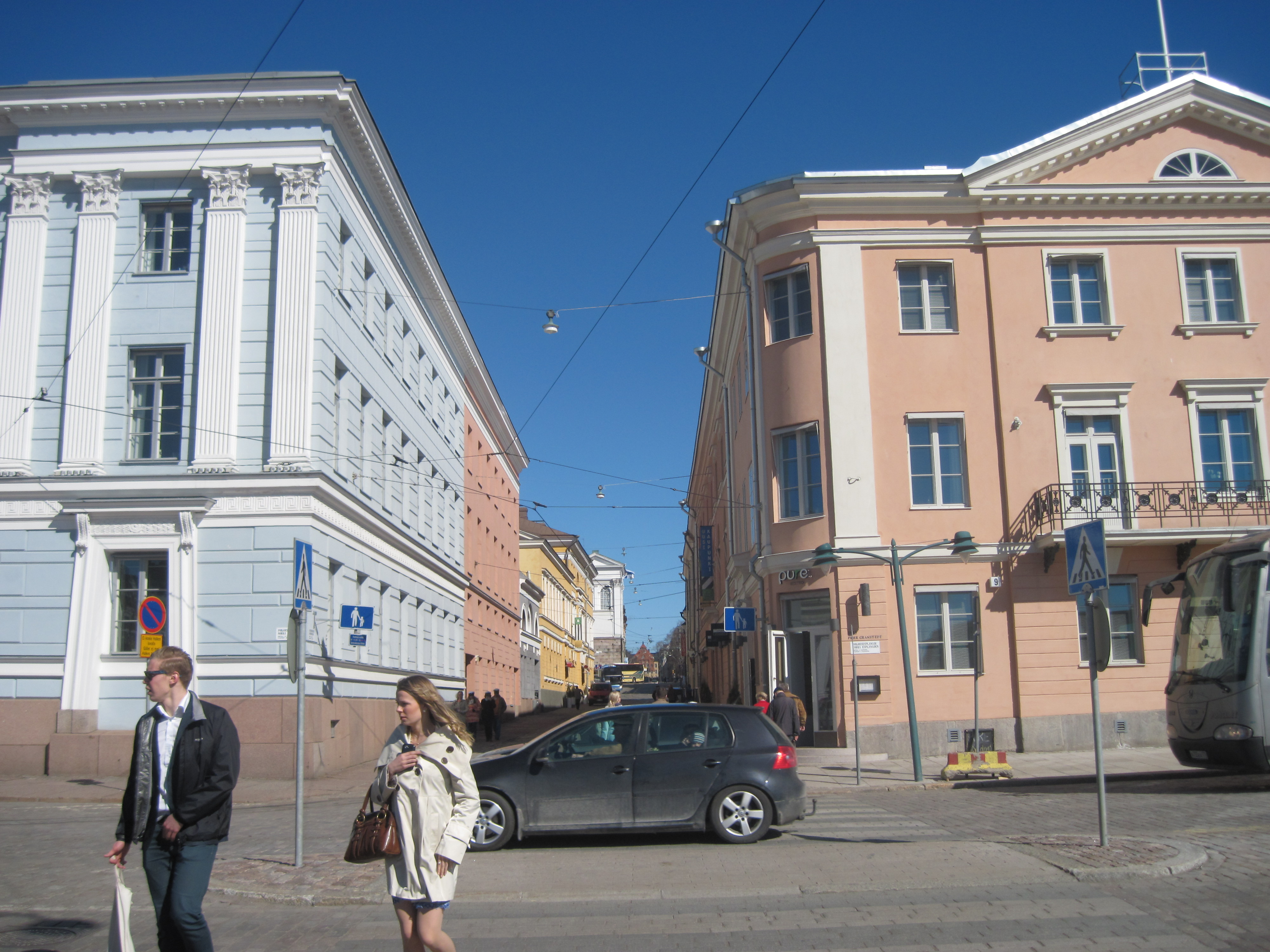 Katariinankatu in Helsinki, seen from South (Market Square)